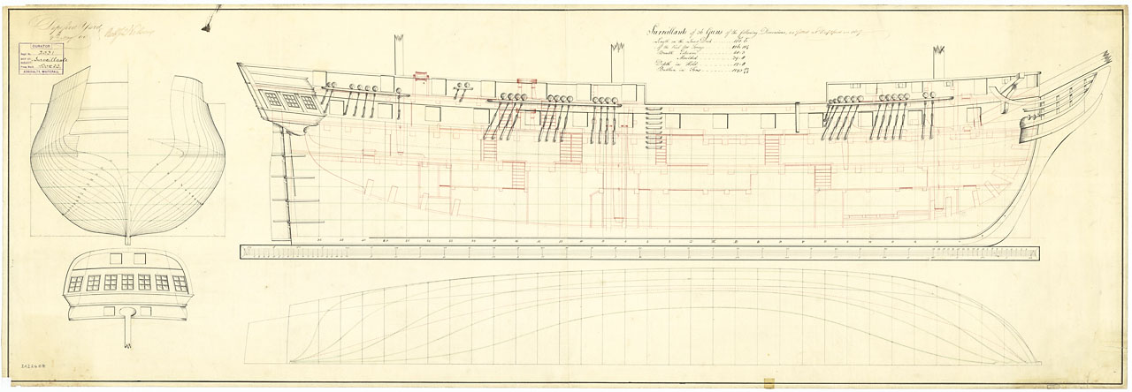 SURVEILLANCE FL.1803 [FRENCH] lines & profile